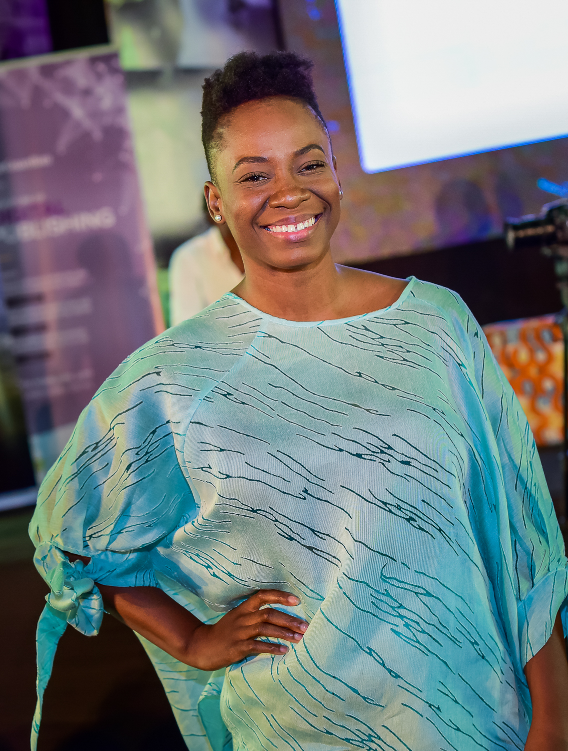 Titilope Sonuga SMW at the Social Media Week held in Lagos, Nigeria in 2017.